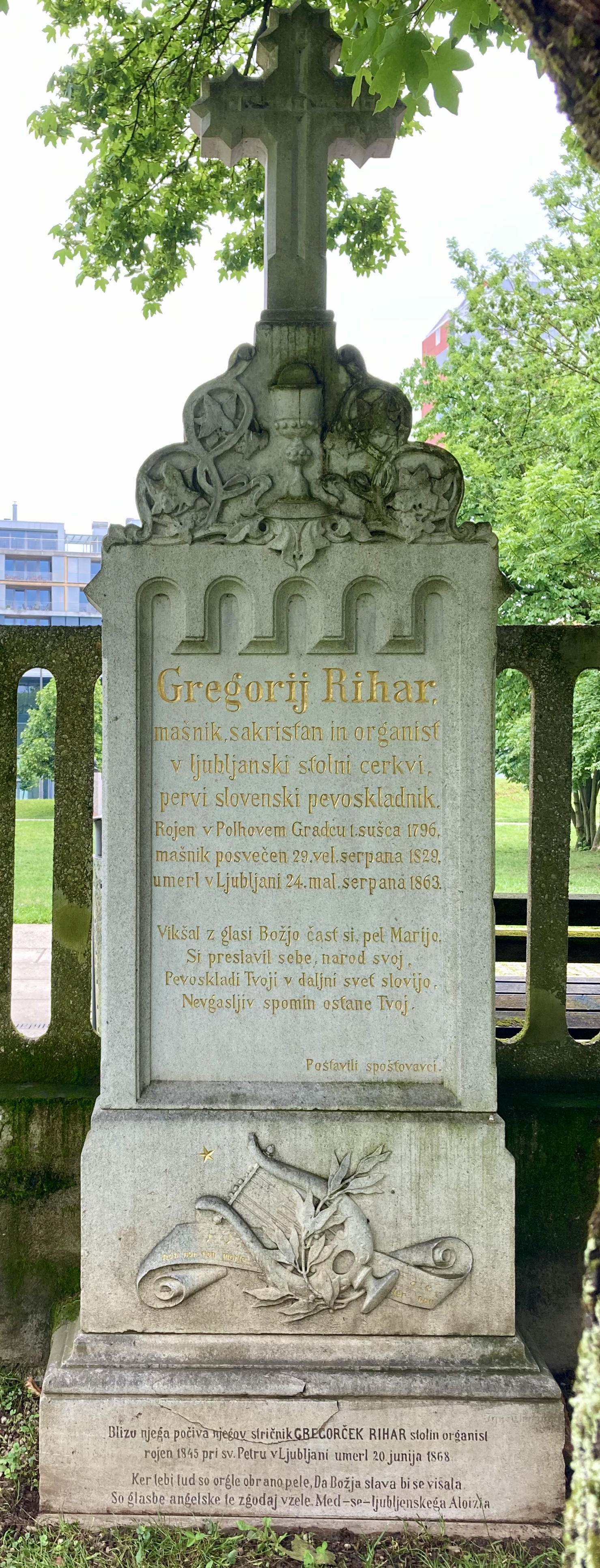 Tombstone of Gregor Rihar, senior and junior, at Navje in Ljubljana